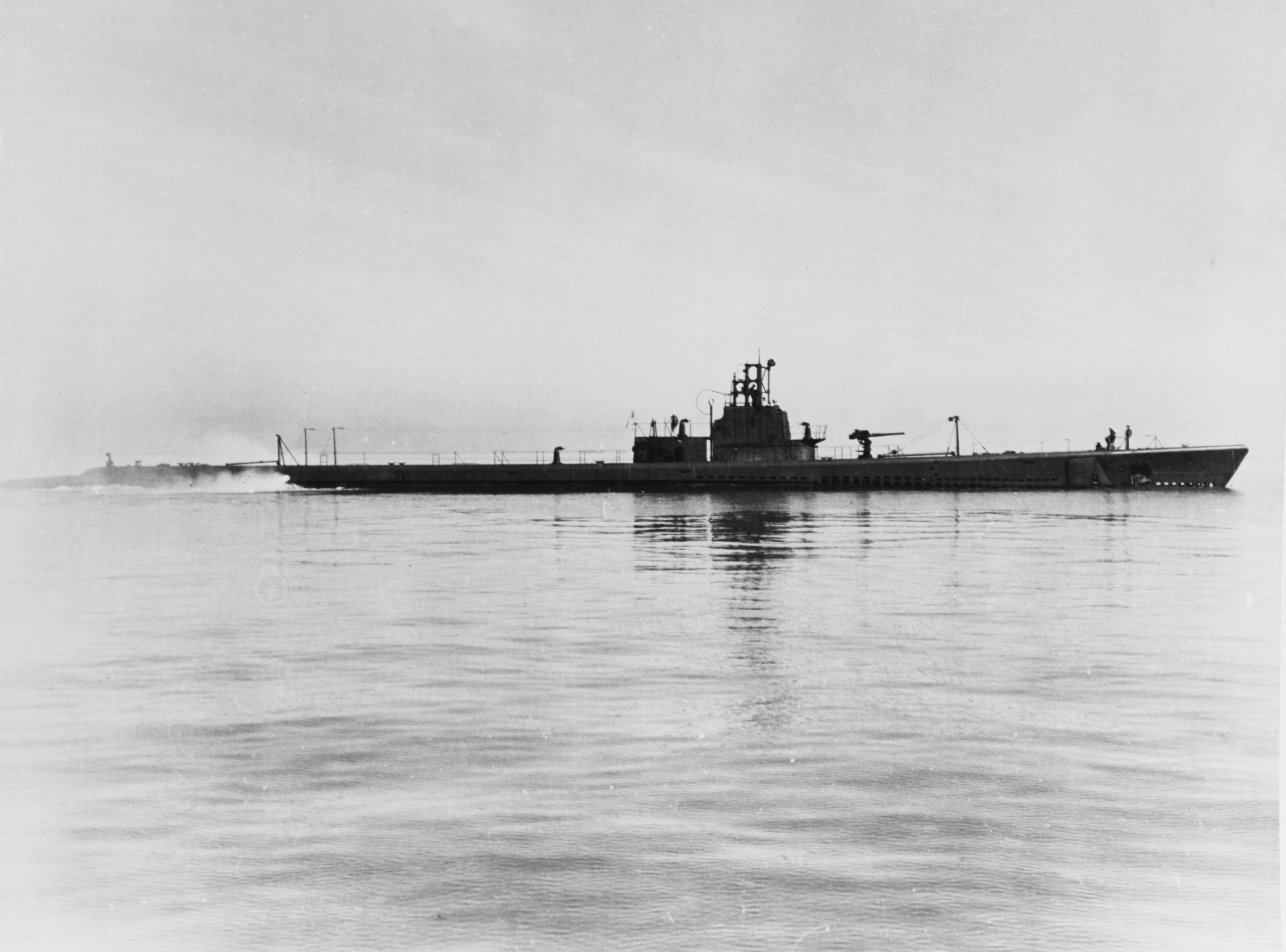 The U.S. Navy submarine USS Growler (SS-215) underway on 5 May 1943. Note the 76 mm gun mounted forward.